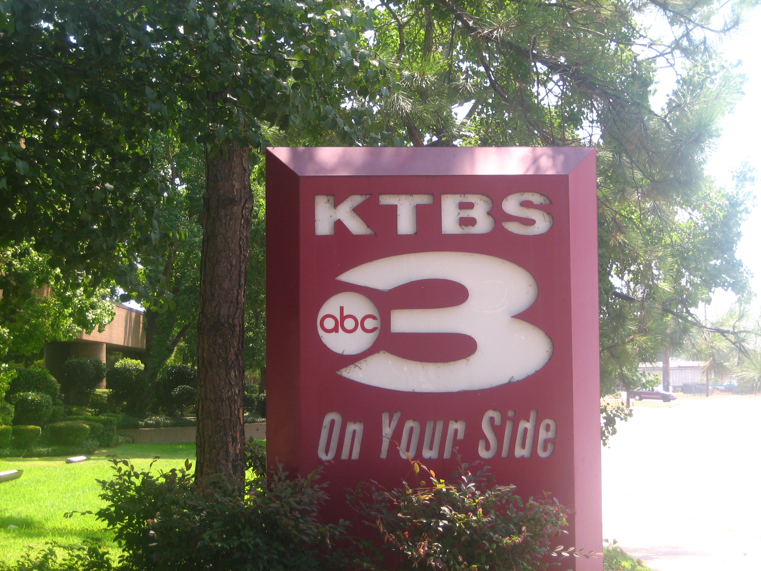 I took photo on Aug. 4, 2008.Billy Hathorn (talk) 17:39, 20 August 2008 (UTC)